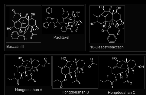 Taxanes [naturally occuring]